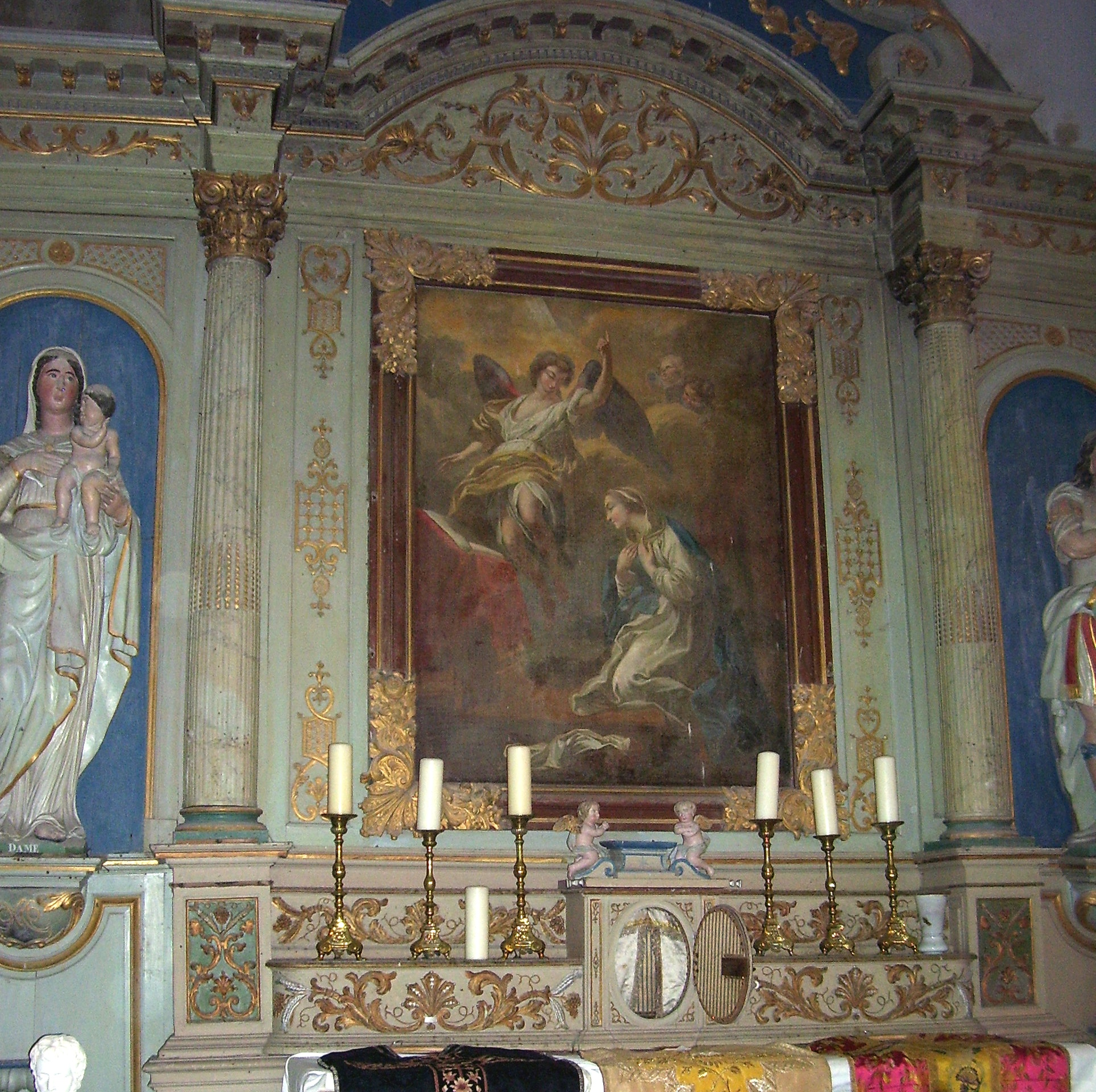 Retable of the church Notre-Dame in Neuville-sur-Authou (Eure, France) with the "Annunciation" by François Lemoine (1688-1737).